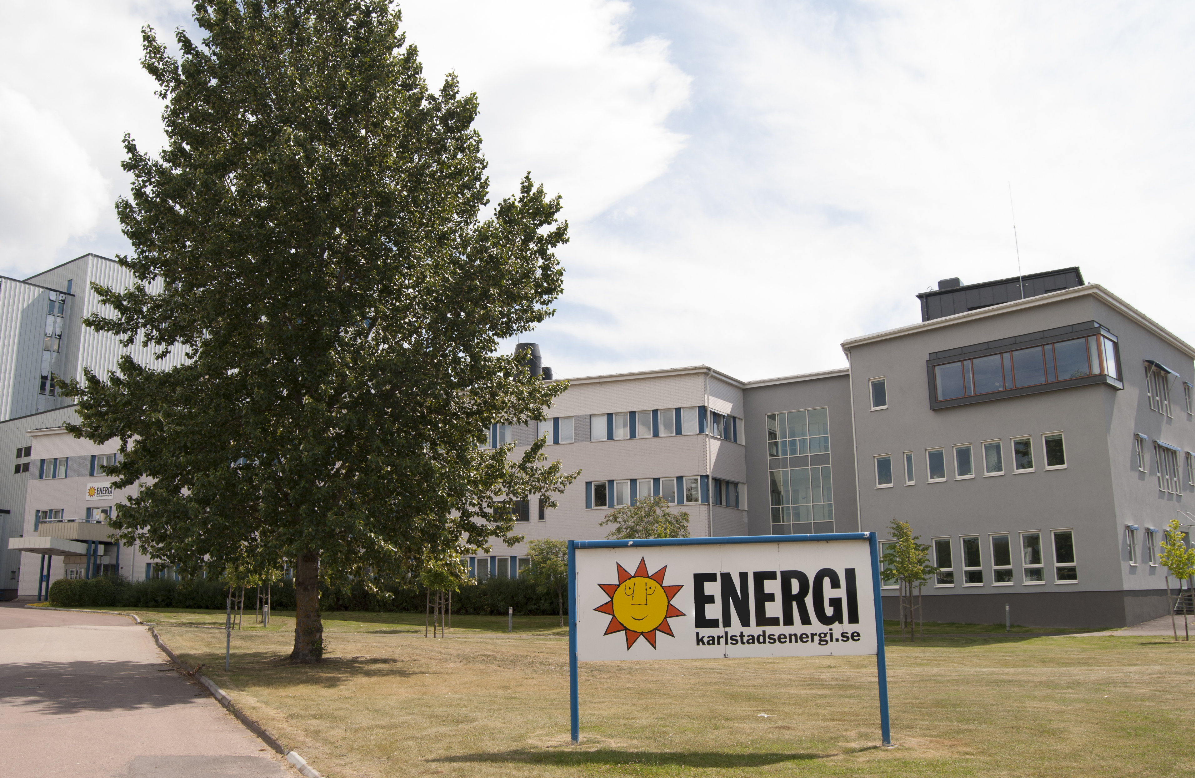 Karlstads Energi